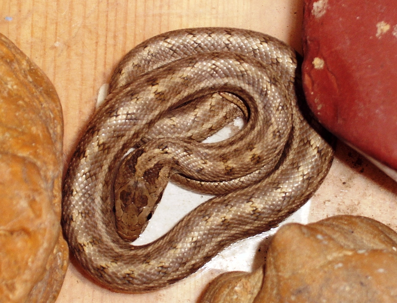 Picture of Elaphe dione